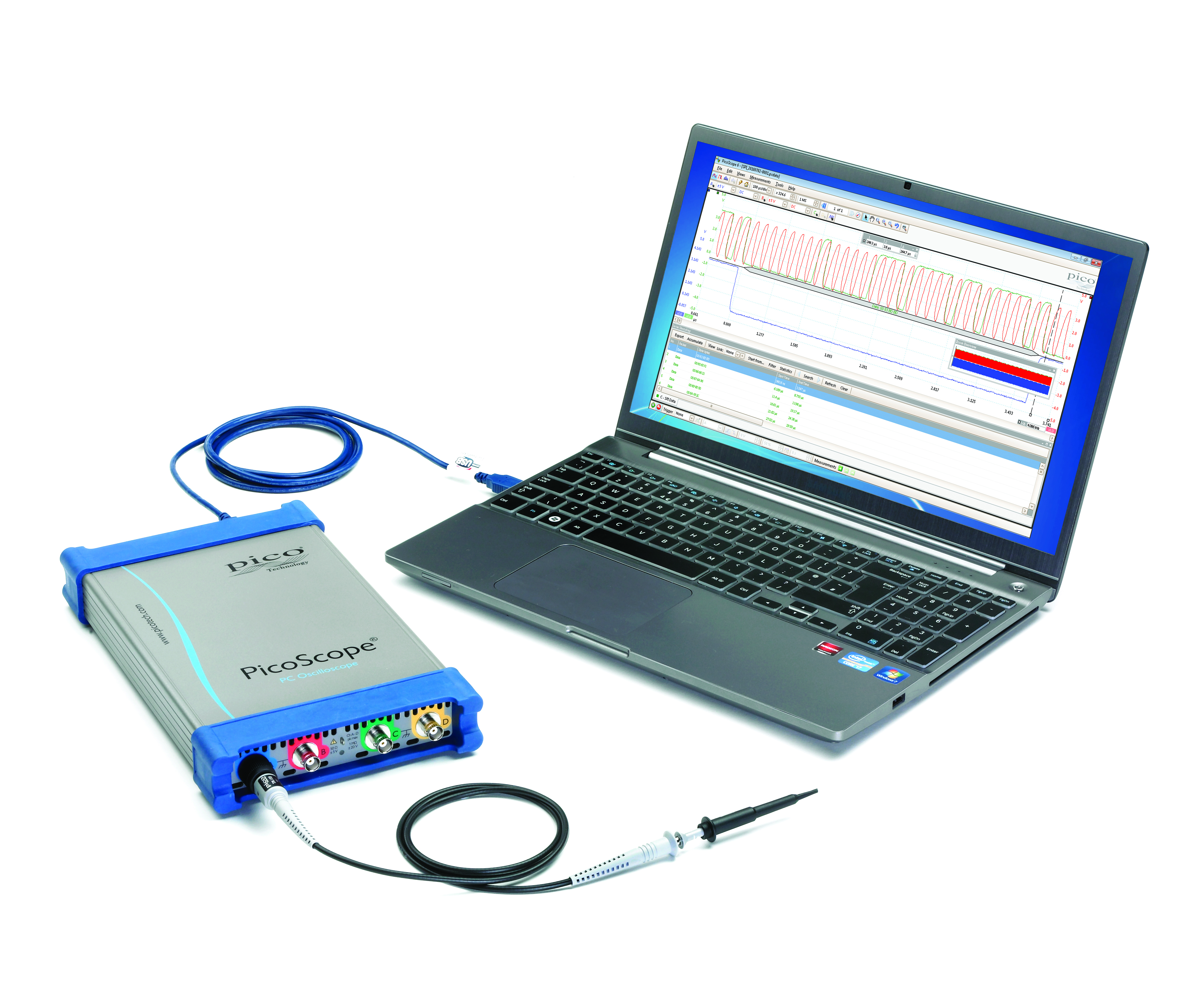 PicoScope 6000 with Laptop running PicoScope (software)